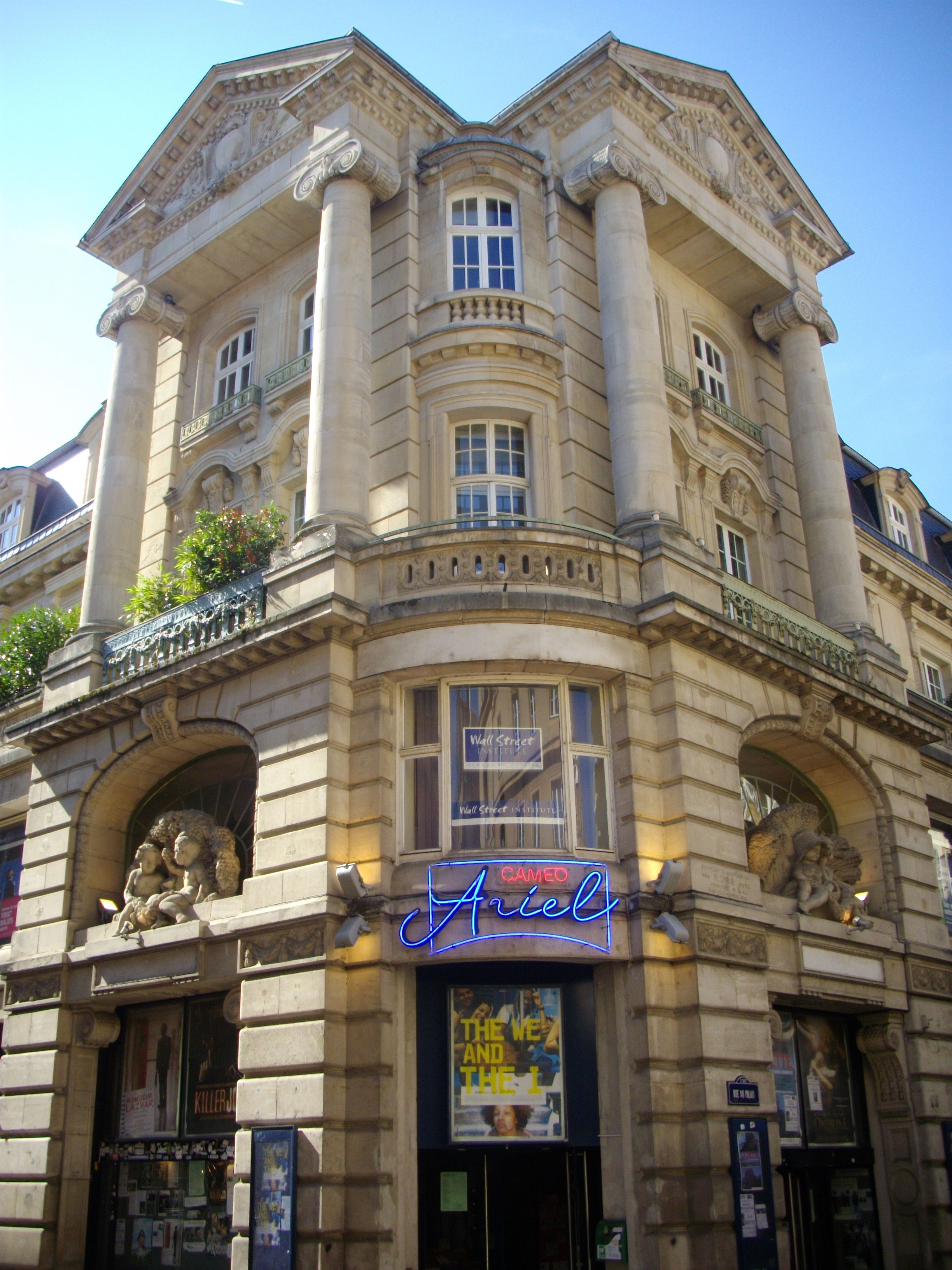 Cinema Caméo Ariel in Metz (Moselle, France)